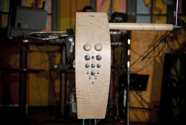 Moog Etherware pro (E-pro, epro) theremin